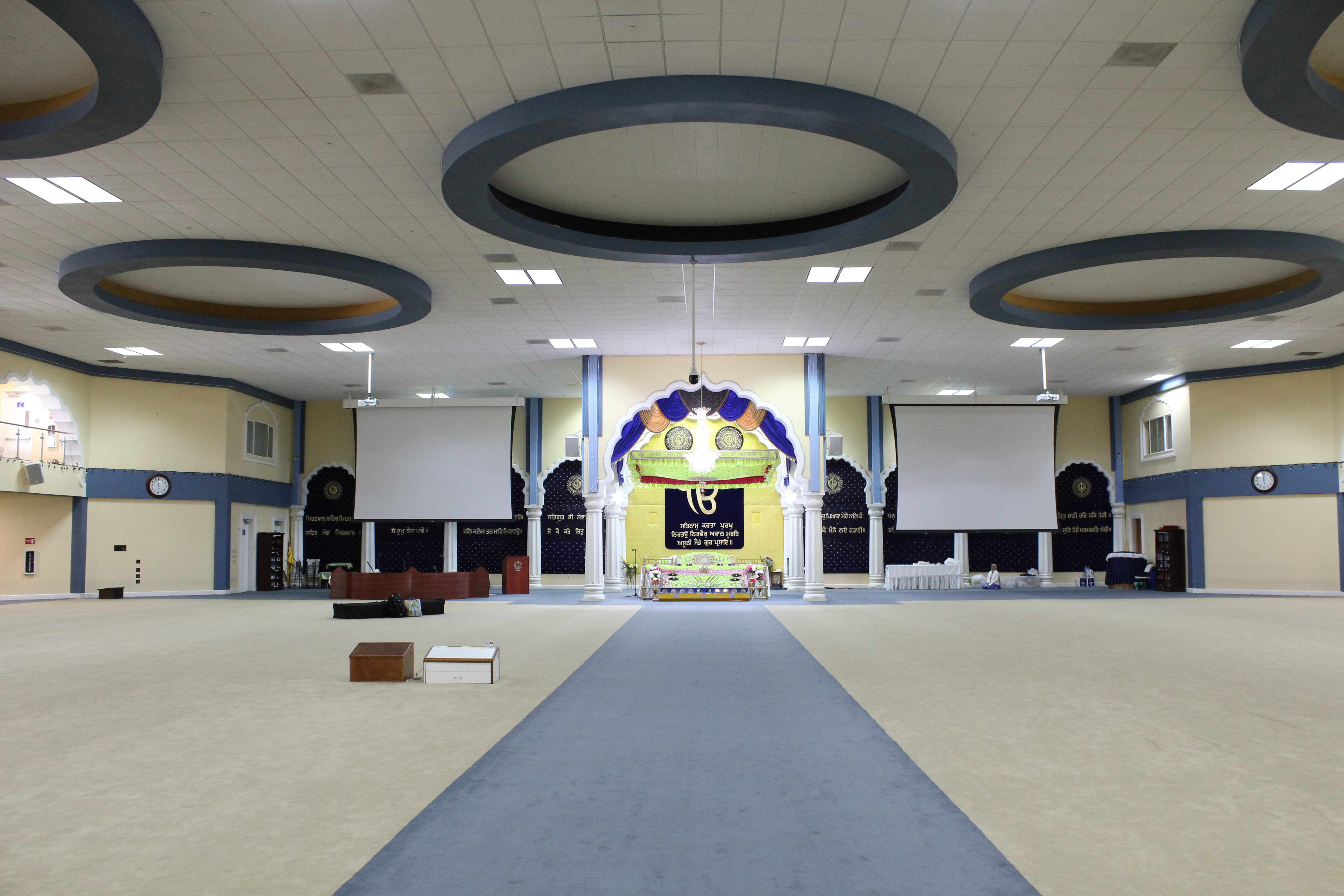 Sikh Gurdwara, San Jose. Interior view.